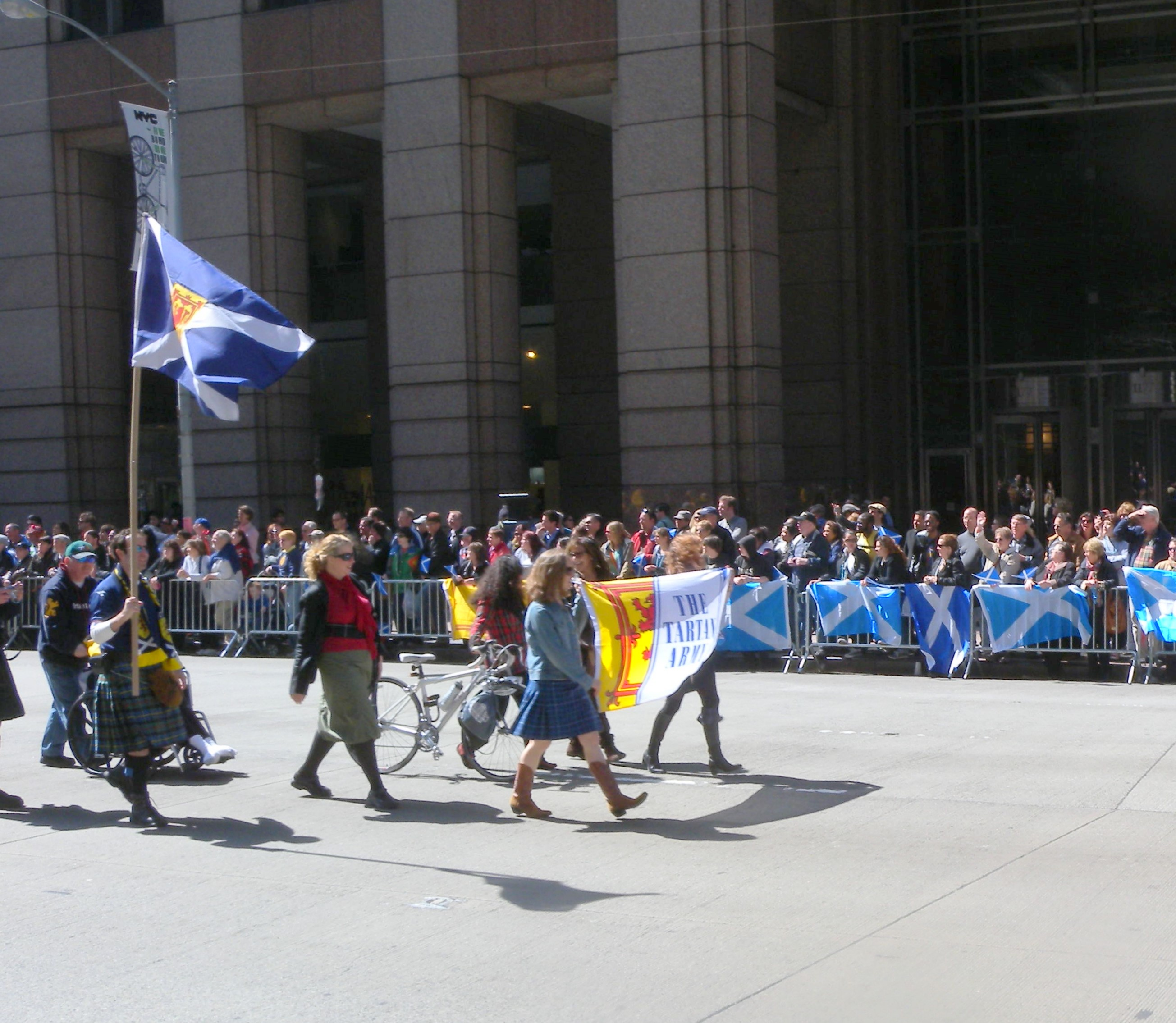 Looking west at Tartan Army in Tartan Day Parade on a sunny afternoon.